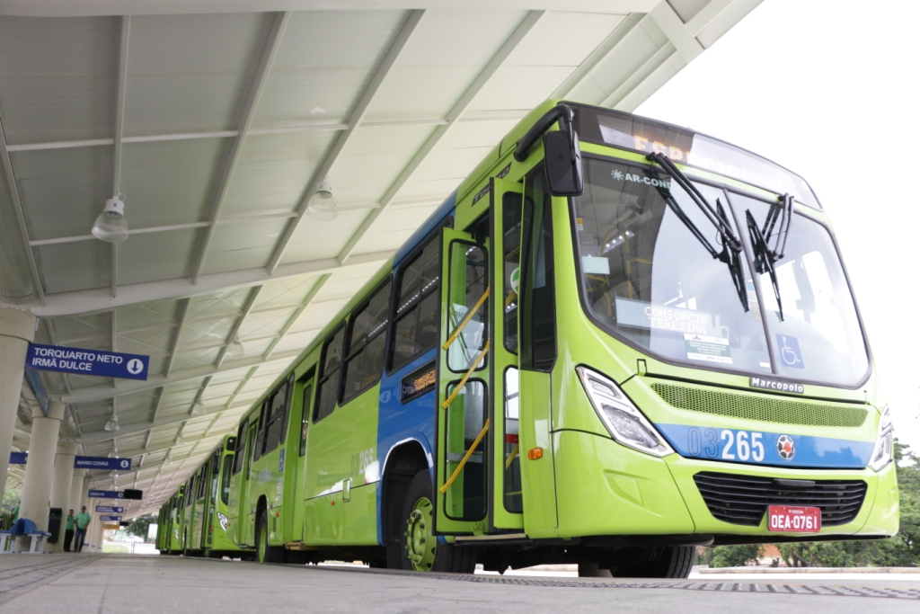 inthegra